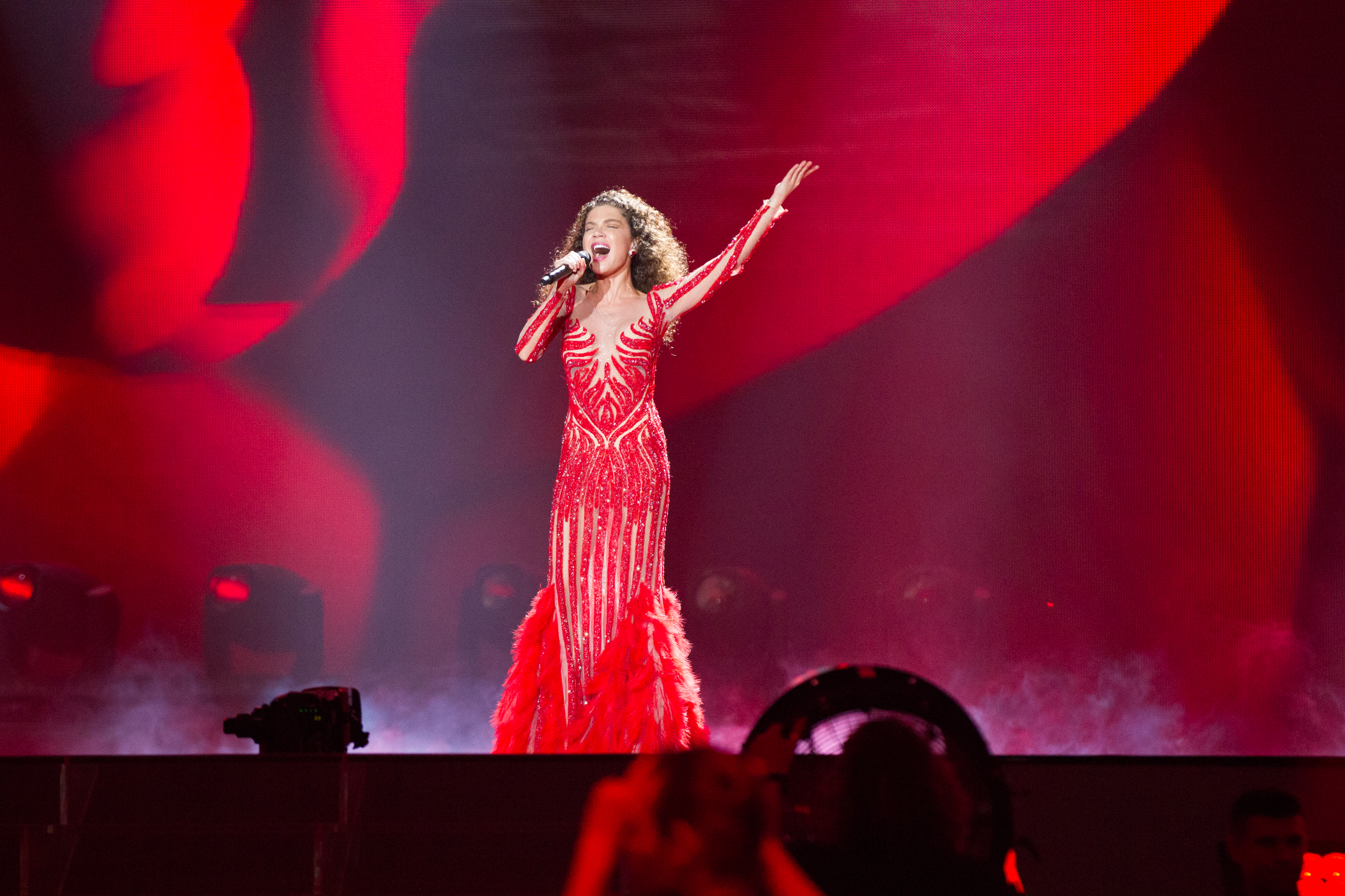 Tamara Gatchetchiladze representing Georgia with the song "Keep the Faith" during a rehearsal before the first semi final of the Eurovision Song Contest 2017 in Kiev.